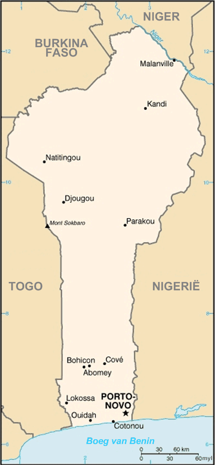 An Afrikaans map of Benin.